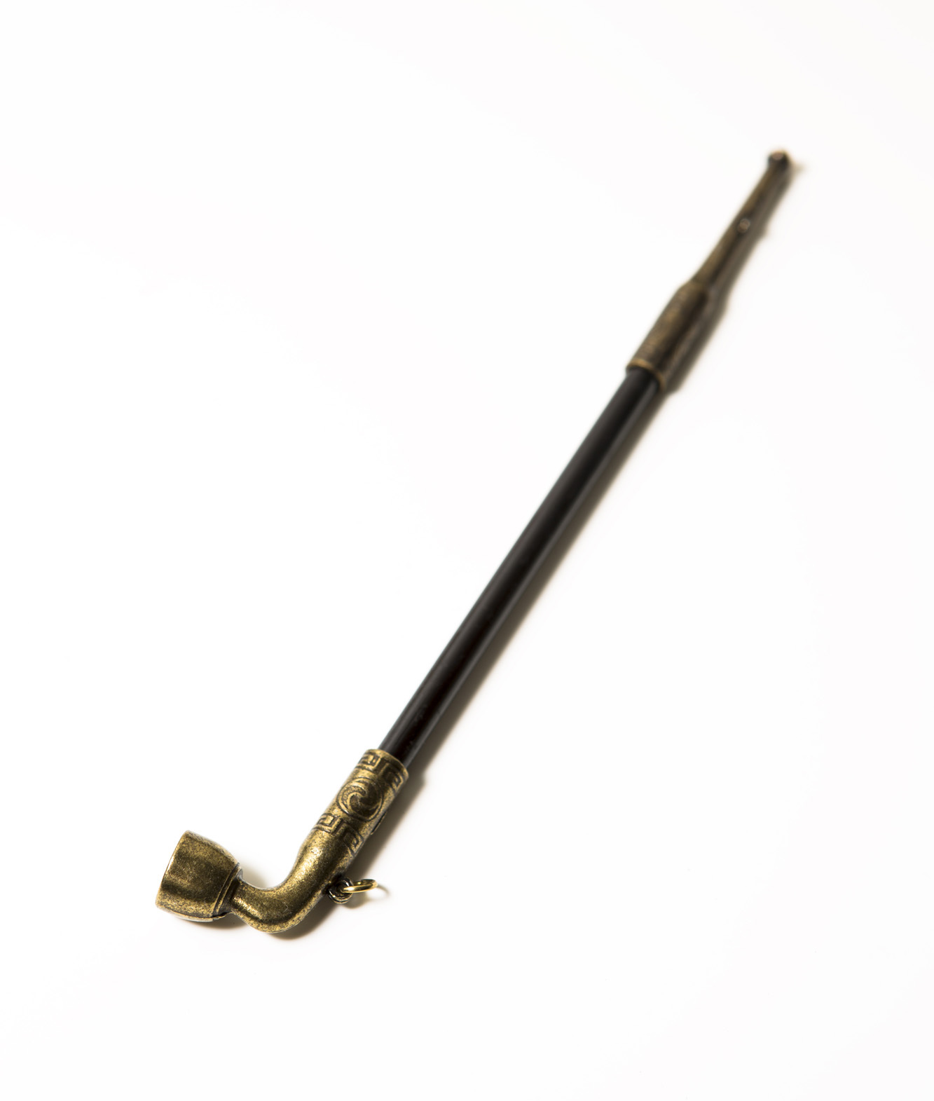 Gombangdae (tobacco pipe)